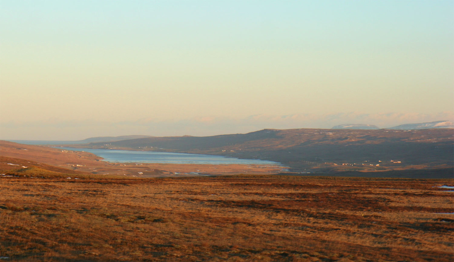 Southern end of Hrútafjörður, with the Vatnsnes peninsula visible in the distance (right), November 21 11:00 Iceland, November 2007 Photo by me user debivort (or friend, with permission given to upload and license freely).